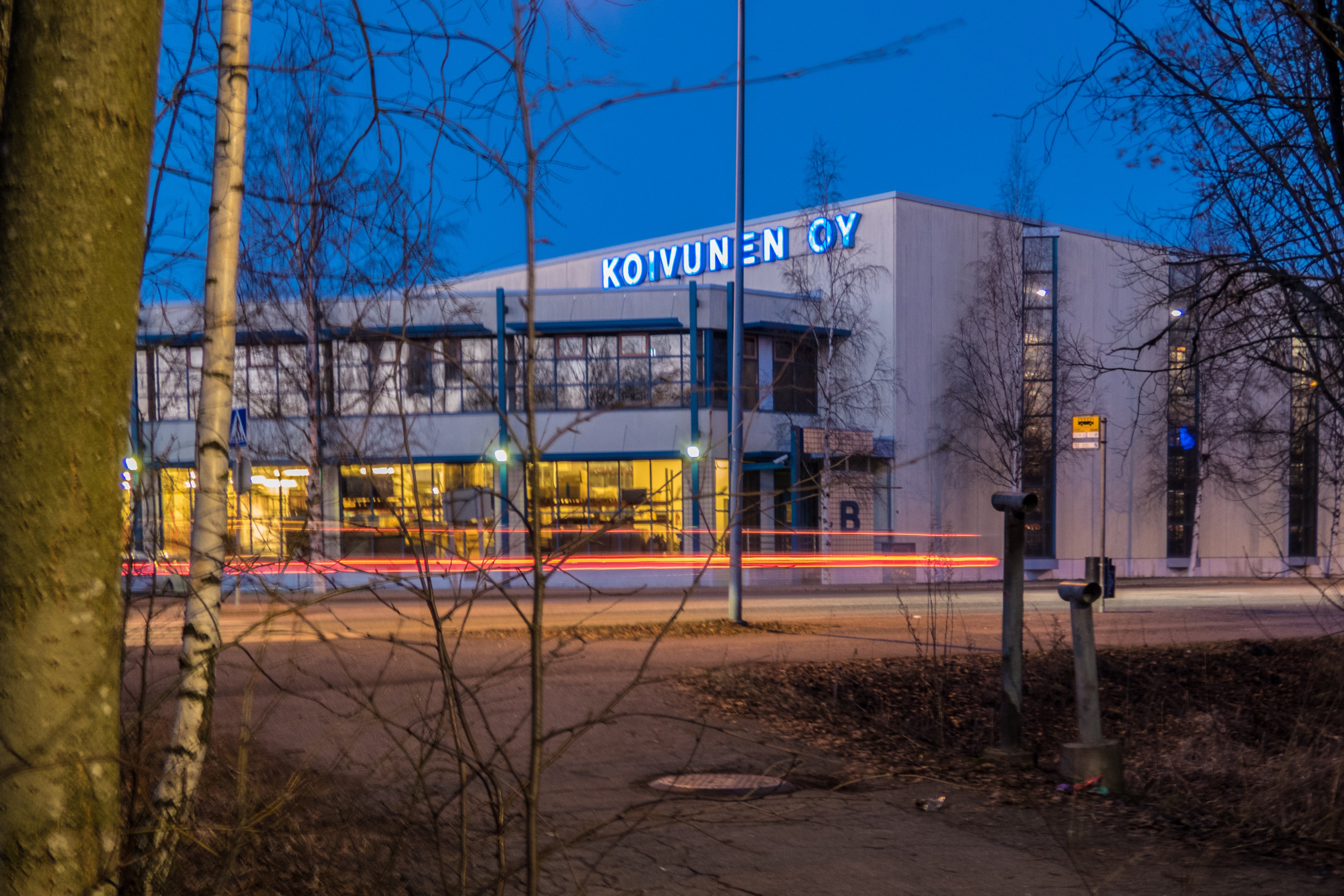 Automotive parts import and wholesale company Koivunen Oy in Ala-Malmi, Helsinki.